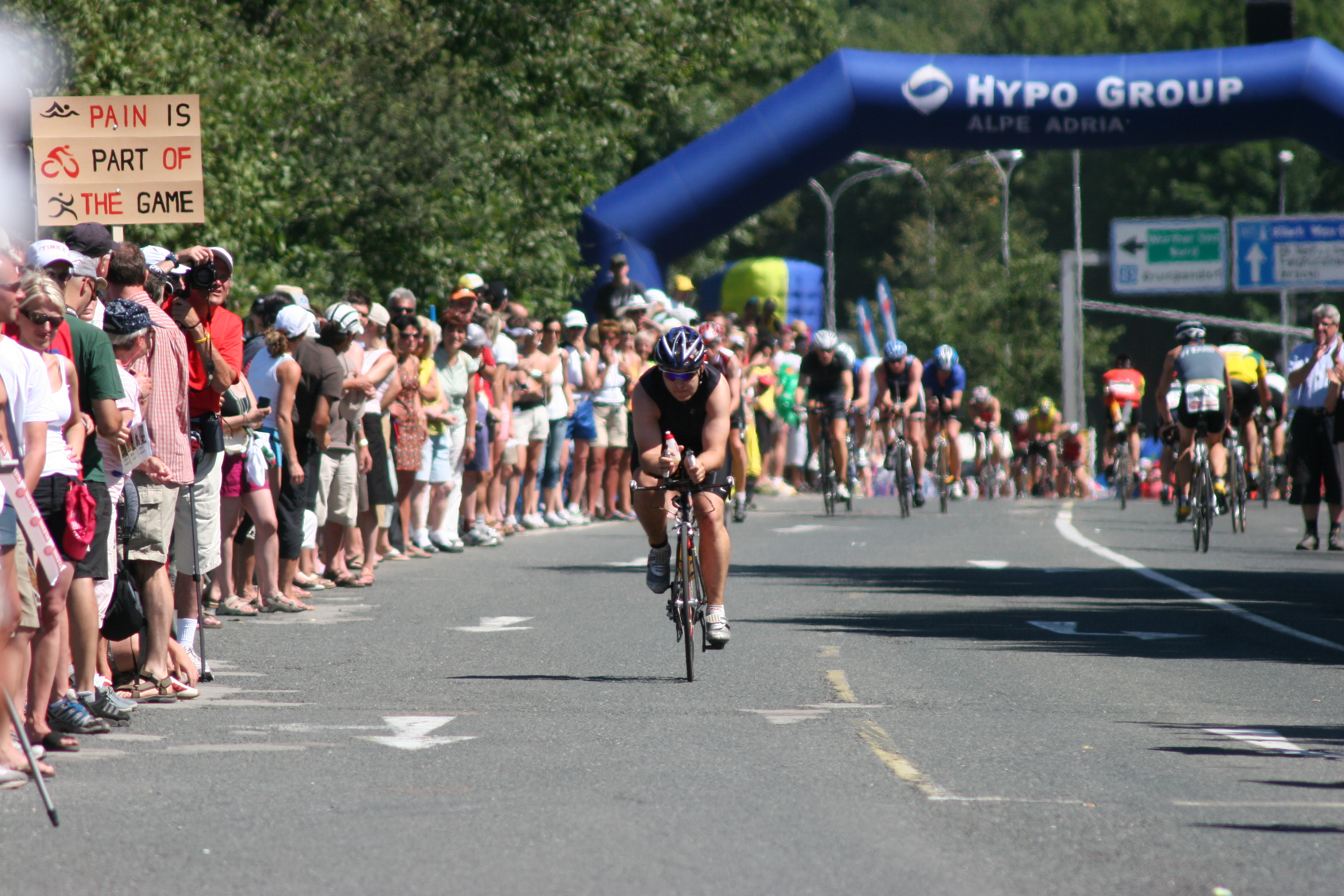 Crowds near turn around of bike course at Ironman Austria 2006